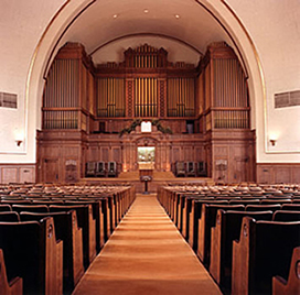 Interior, Poplar and Montgomery building, Temple Israel (Memphis, Tennessee)